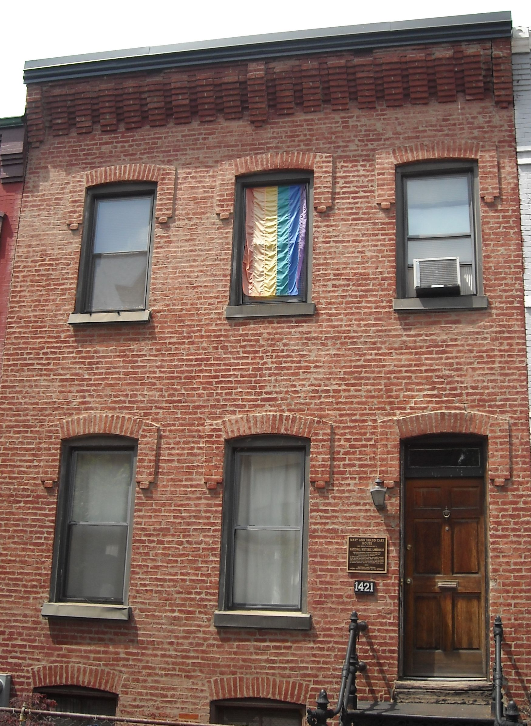 The Mary Ann Shadd Cary House located at 1421 W Street, NW in the U Street Corridor of Washington, D.C. The building is a National Historic Landmark.